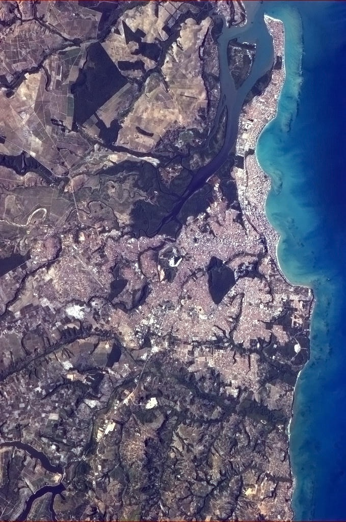 "Joao Pessoa, Brazil, easternmost city in the Americas - where the sun rises first." Caption by astronaut Chris Hadfield aboard the International Space Station.